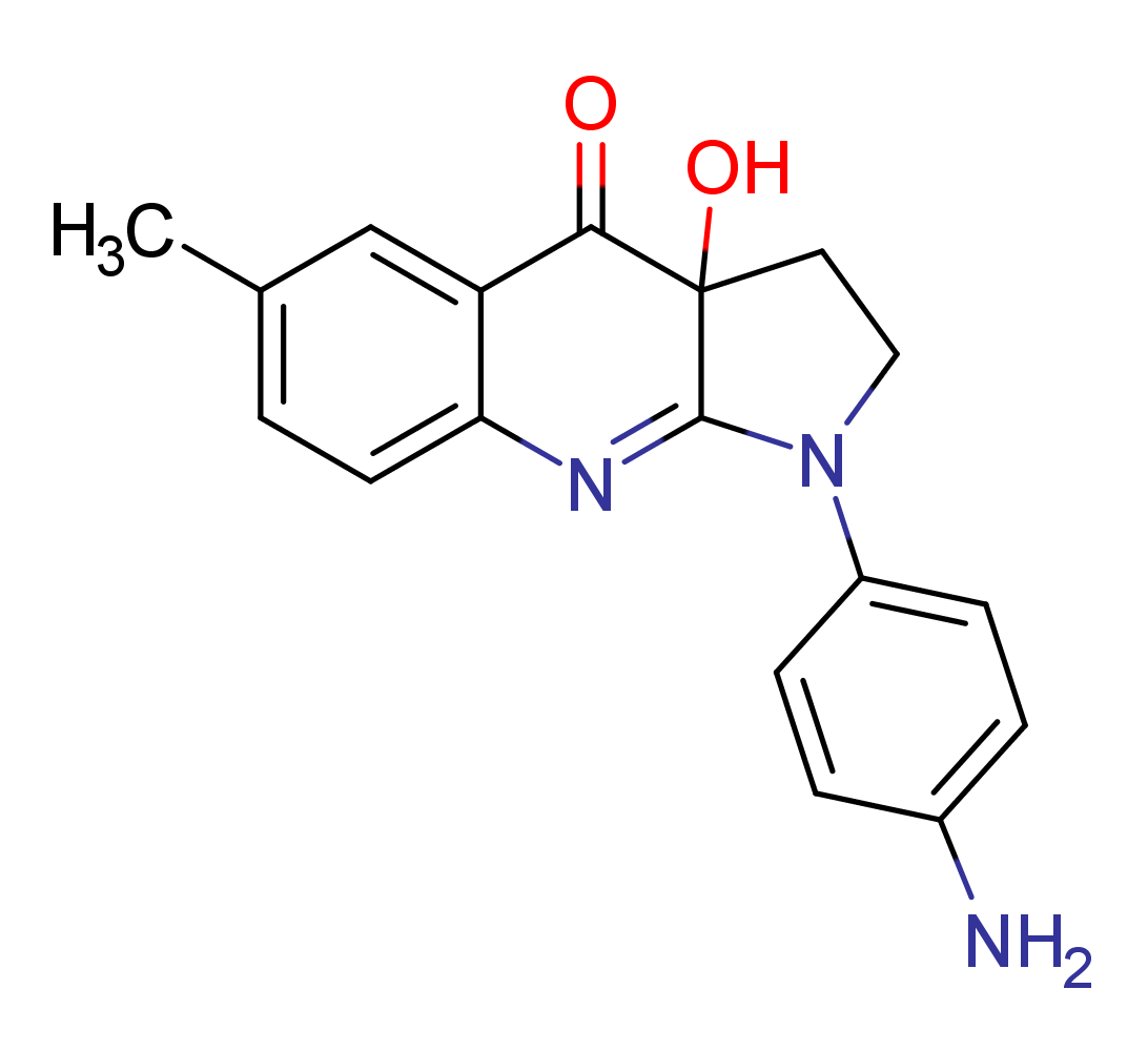 chemical structure of the myosin inhibitor para-aminoblebbistatin